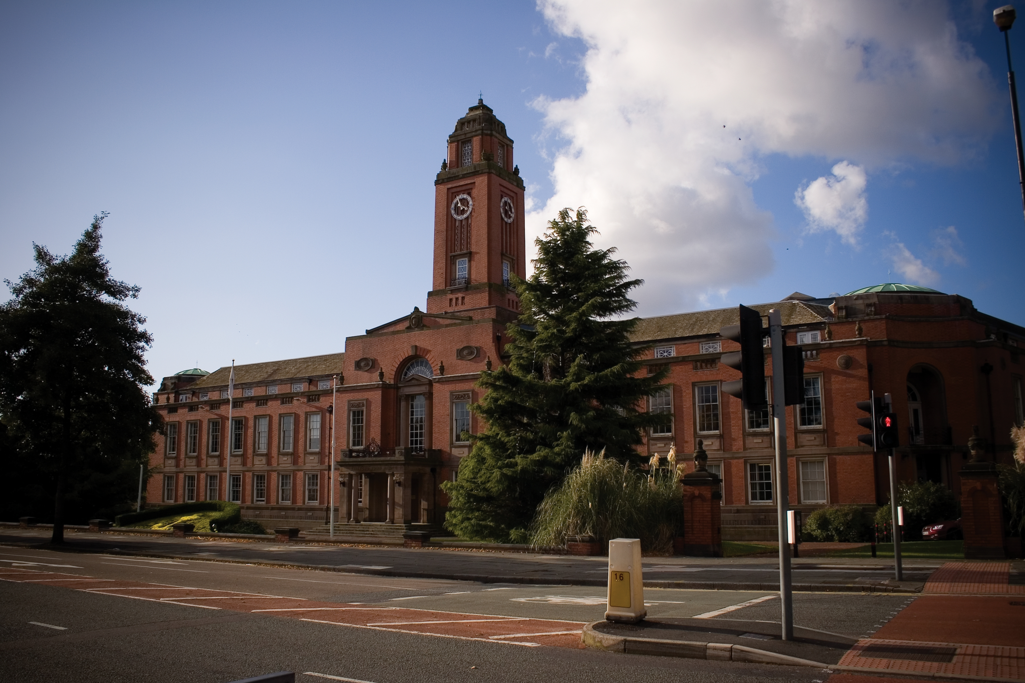 Trafford Town Hall taken from the junction of Warwick Road and Talbot Road.